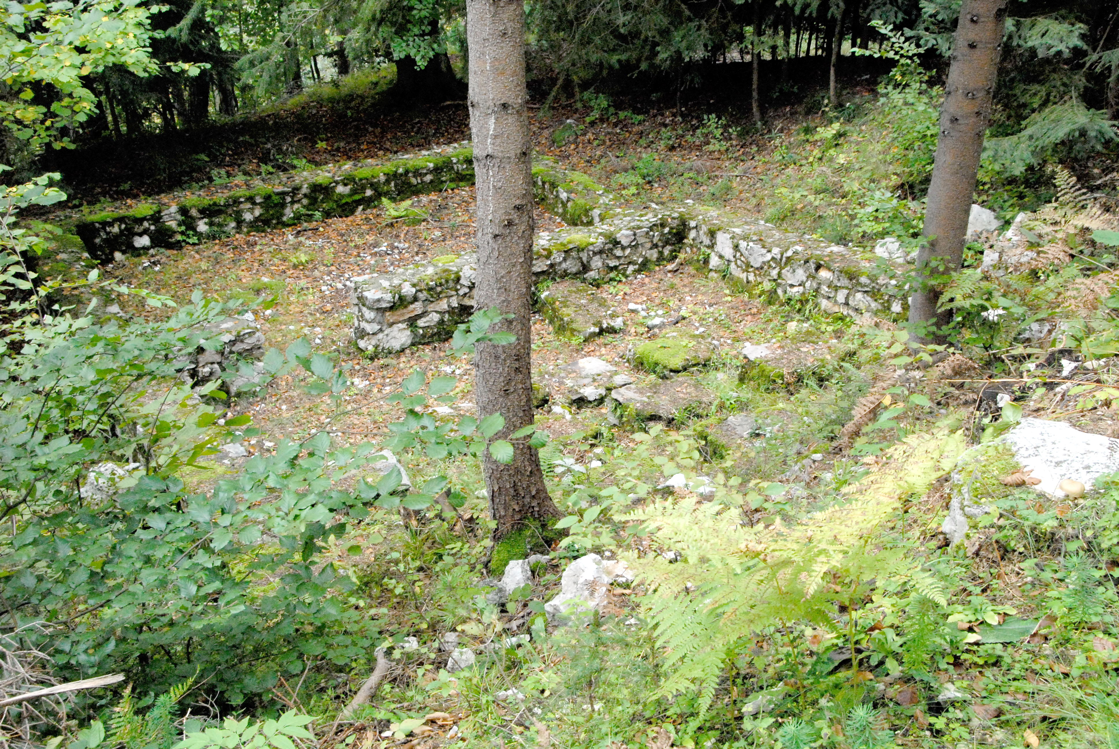 Foundation walls of a villa with hypocaustum inside the fortress on the Tscheltschnigkogel near “Warmbad” in Villach, Carinthia, Austria